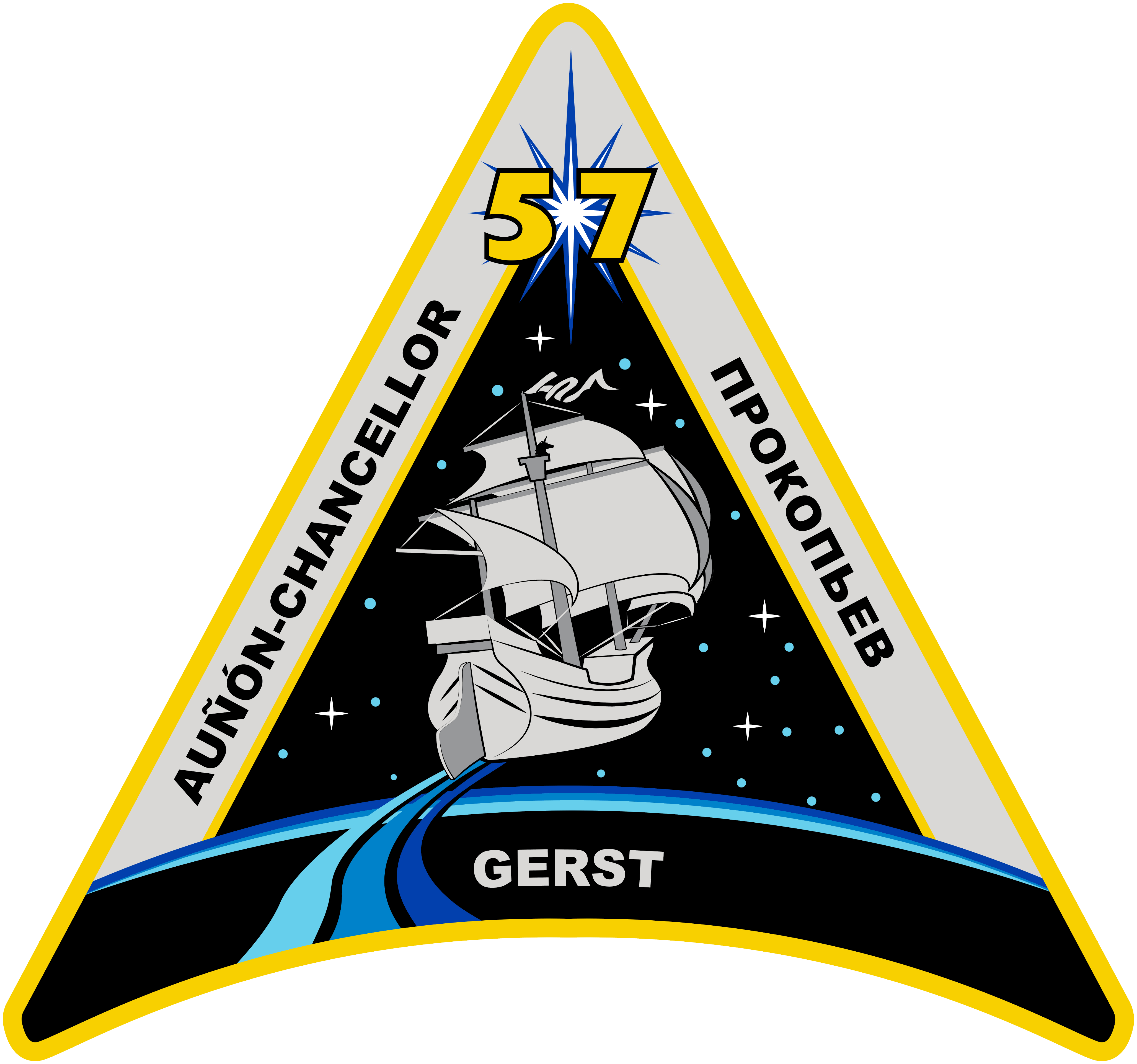 The official insignia of the three-member Expedition 57 crew Humans are explorers. We live on a cosmic island. Setting sails towards new worlds has always been our nature, and it is key to our survival. As soon as our ancestors learned how to build ships, they not only used them to sail up and down the coasts, but ultimately they set out to travel beyond the horizon, to discover new continents. The time of space exploration has just begun, a mere blink of an eye in the eon-long history of human exploration. And yet we already have successfully built great ships to sail the black heavenly seas, and we have dared adventurous journeys into the unknown. The Expedition 57 patch is a tribute to human exploration. It depicts an explorer's ship leaving for the unknown as our early ancestors did, and is shaped like an arrow, heading out to new cosmic horizons. It highlights the purpose of the International Space Station as a world class science laboratory for the benefit of mankind and international cooperation, as well as humanity's flagship in space, preparing us for the amazing voyages ahead. The Expedition 57 patch is dedicated to all those thousands of humans who make this journey possible through the contribution of their passion, hard work, and courage to one of the most fascinating projects in human history.